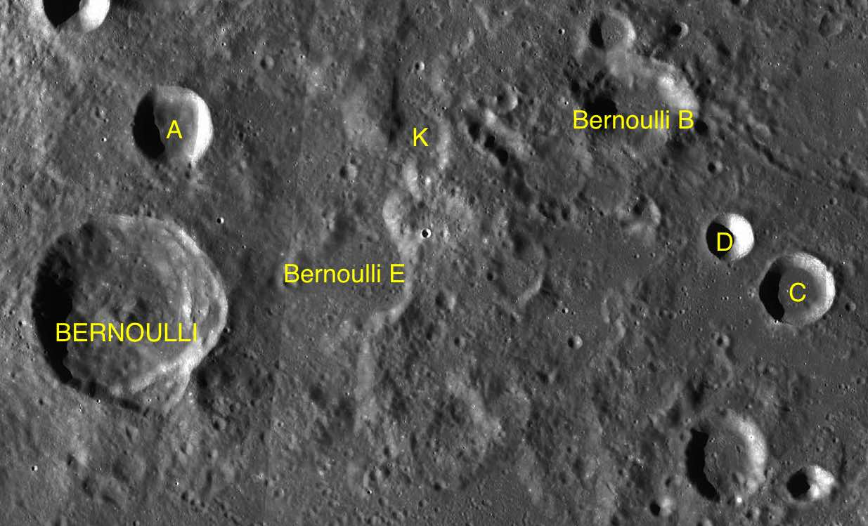 Part of the chart LAC-28 used for the presentation